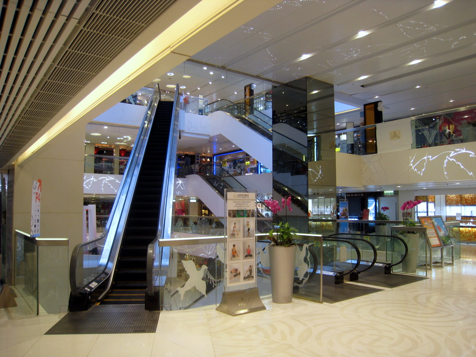 wtc more Enterance 世貿中心翻新後中庭